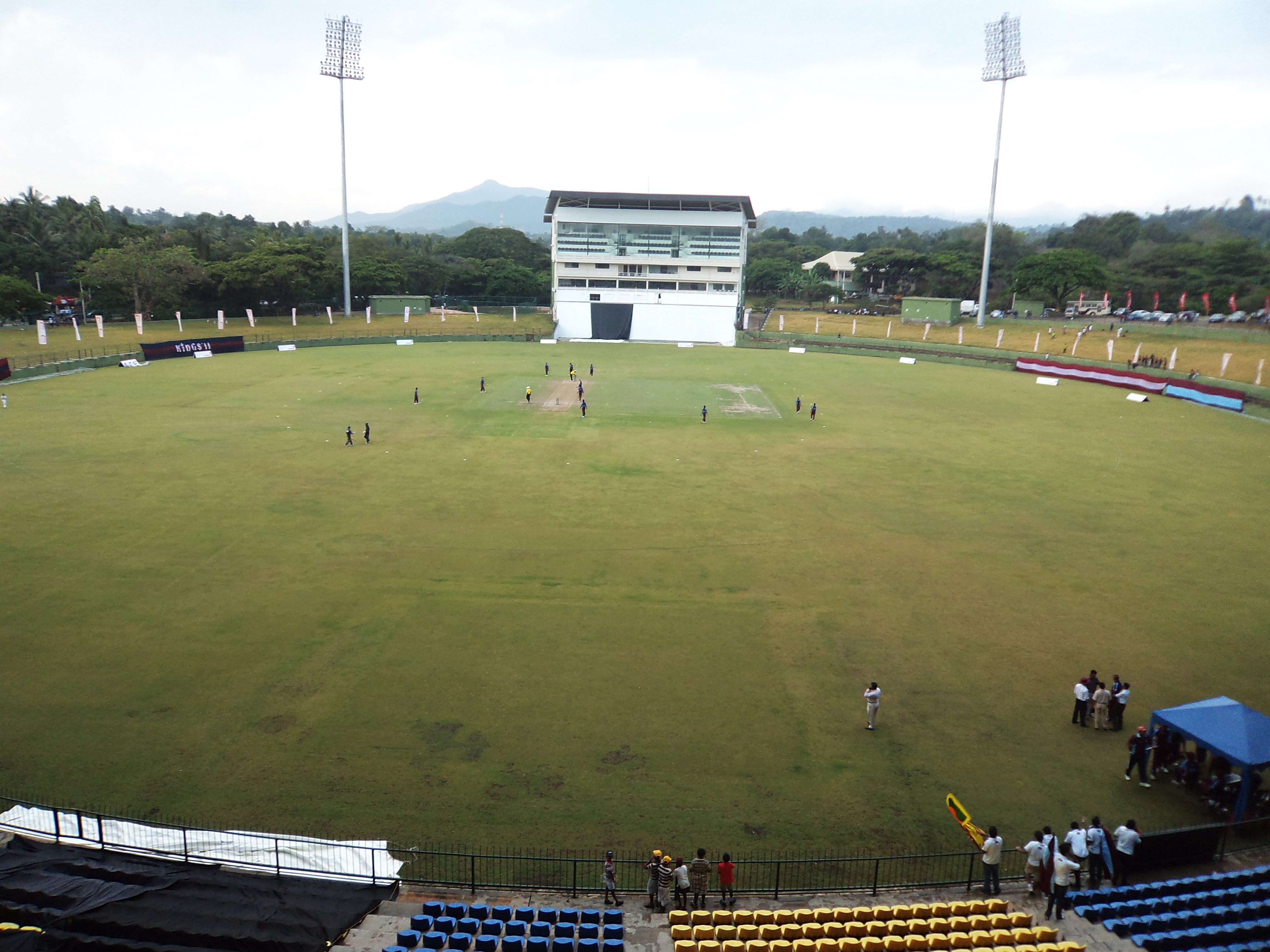 Pallekele International Cricket Stadium in Pallekele, Sri Lanka.